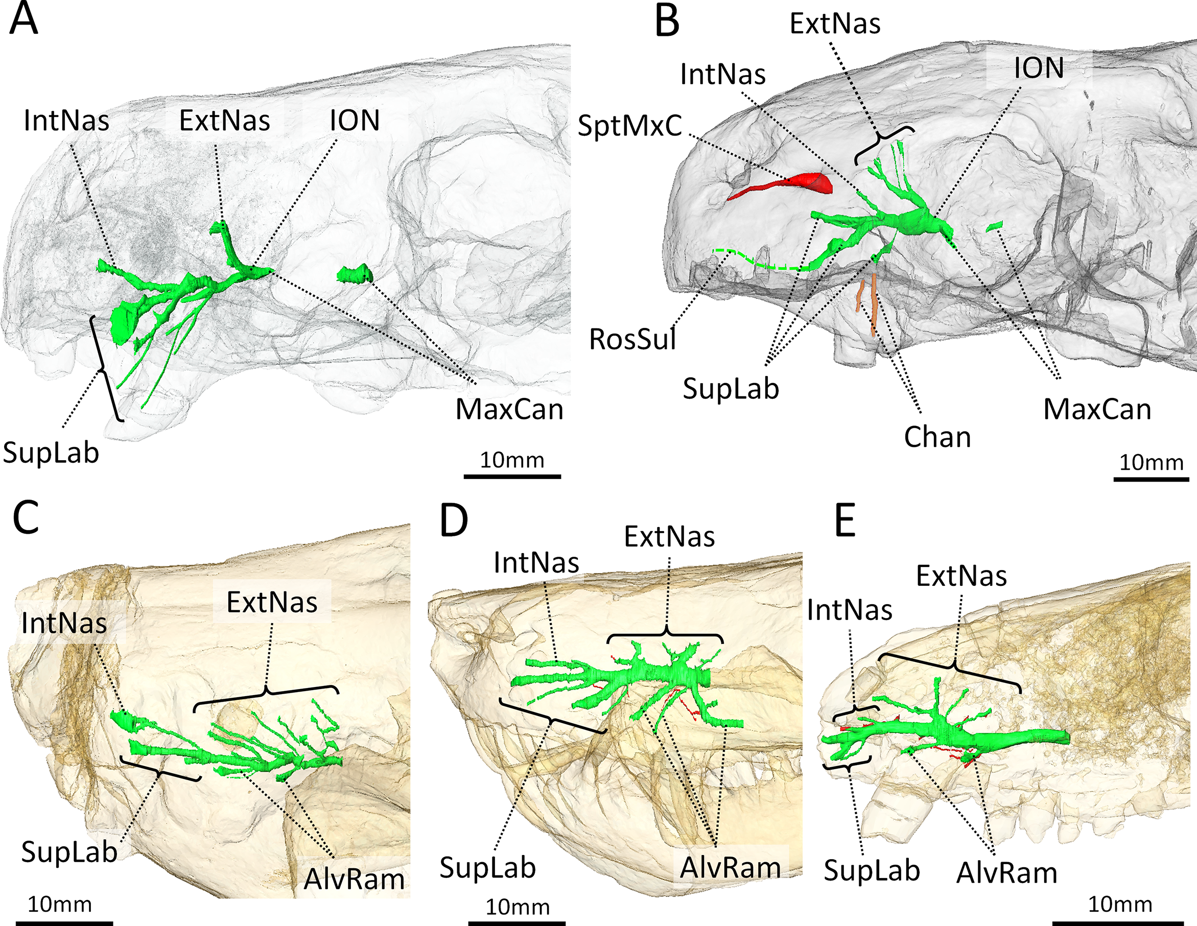 Fig 9. Three-dimensional reconstruction of the maxillary canal in Euchambersia and other therapsids in lateral view. A, BP/1/4009; B, NHMUK 5696 (mirrored for comparison); C, Bauria; D, Olivierosuchus; E, Thrinaxodon. Abbreviations: AlvRam, alveolar rami; Chan, channels excavating the maxilla; ExtNas, external nasal rami of the infraorbital nerve; IntNas, internal nasal rami of the infraorbital nerve; ION, infraorbital nerve; MxCan, maxillary canal; RosSul, sulcus on the rostral-most part of the maxilla and premaxilla for a branch innervating the ventral margin of the upper jaw; SupLab, supralabial ramus of the infraorbital nerve; SptMxC, Septomaxillary canal.